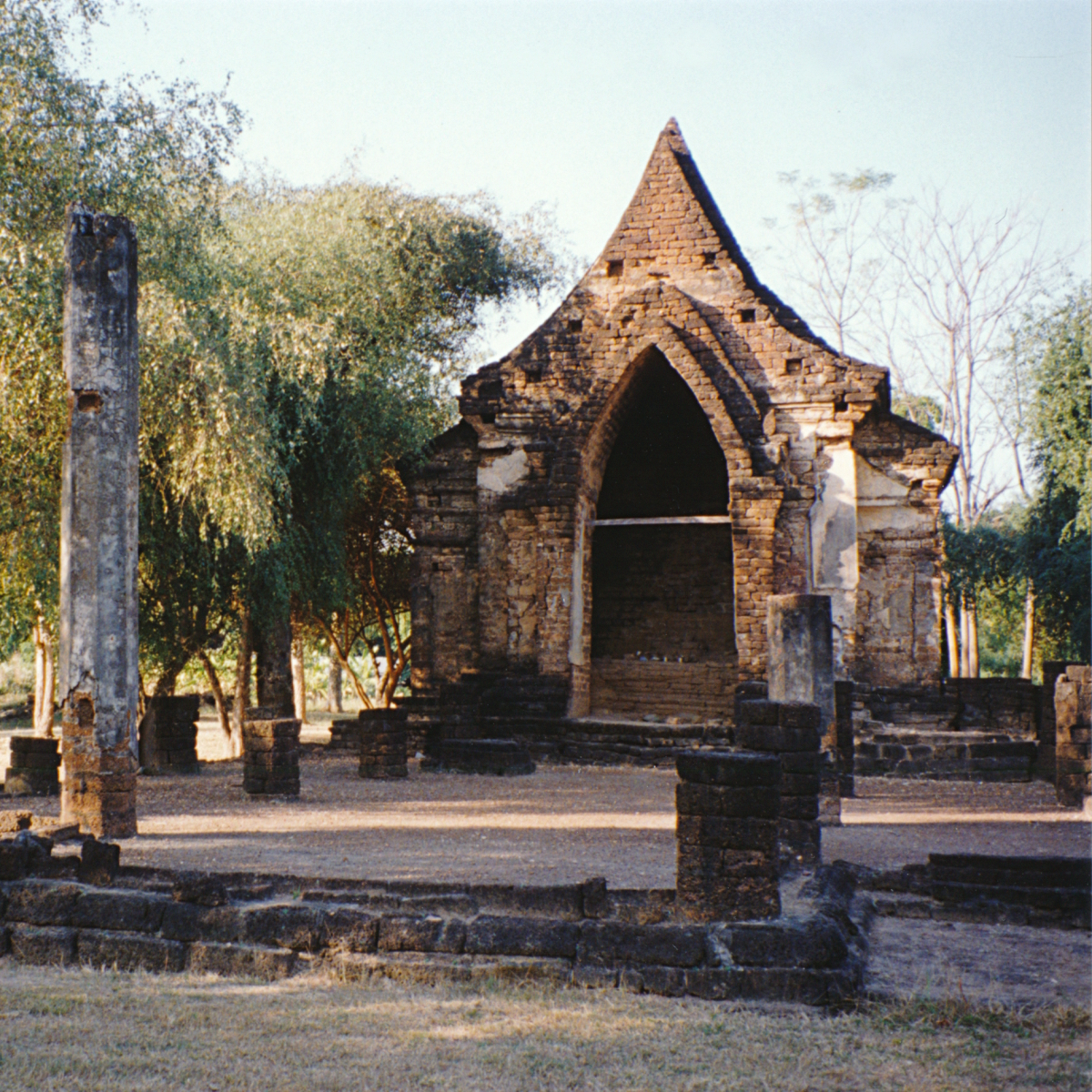 Wat Kudi Rai (Wat Kudee Rai、Wat Kuti Rai), East Mondop (Mandapa)